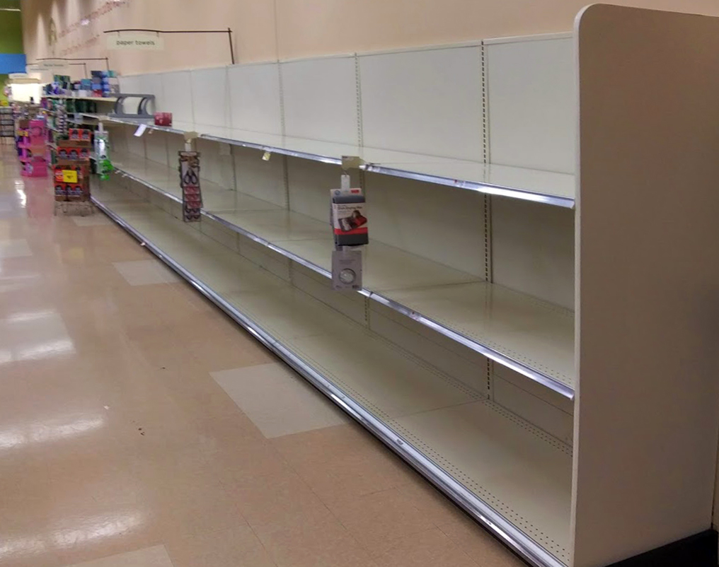 Shelves where paper towel rolls are displayed at the Hannaford supermarket in Walden, NY, USA, completely emptied by panic buying after the 2019–20 coronavirus pandemic was declared a national and state emergency, and area school districts announced they would be closing for the next two weeks.